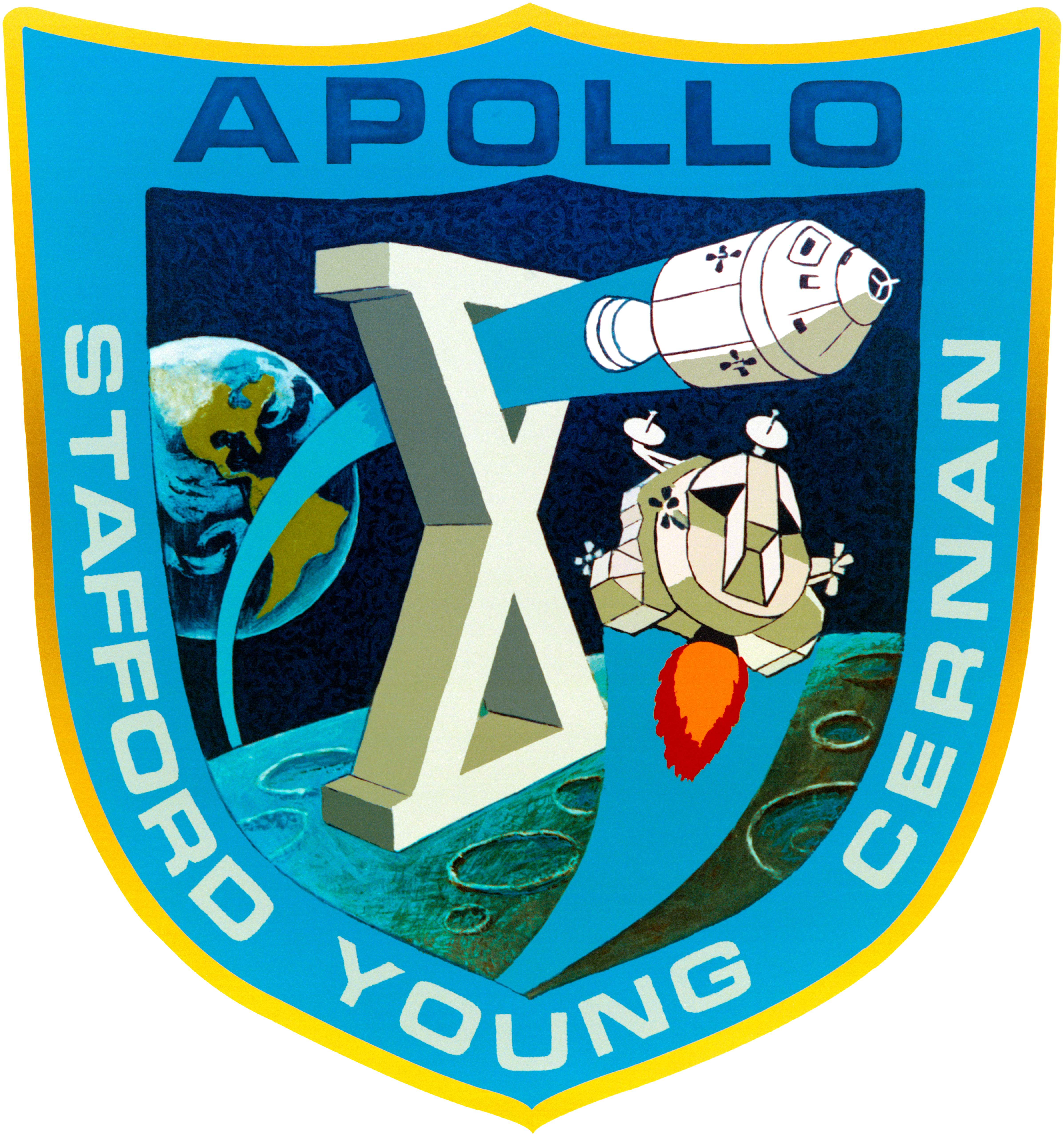 Logo Apollo 10 Emblem of the Apollo 10 lunar orbit mission. The prime crew of Apollo 10 is astronauts Thomas P. Stafford, commander; John W. Young, command module pilot; and Eugene A. Cernan, lunar module pilot.